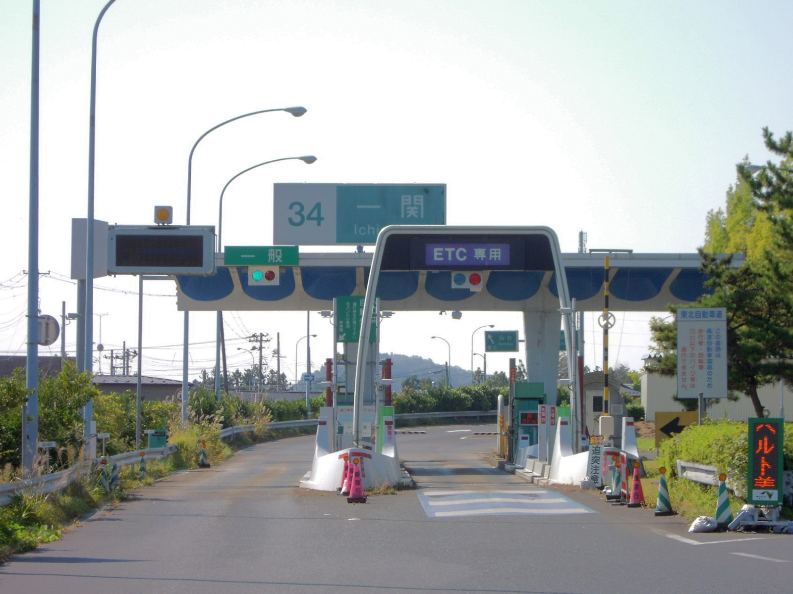 This Interchange, Ichinoseki Interchange, is on Tohoku Expressway, in Ichinoseki City, Iwate Prefecture, Japan.